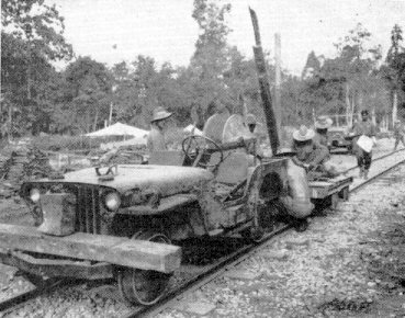 A specially equipped rail Jeep strings signal wire along the railroad from Pinwe to Naba Junction in Burma. Operators are men of the 96th Signal Bn., Co. A. U.S. Army photo taken Dec. 15, 1944.